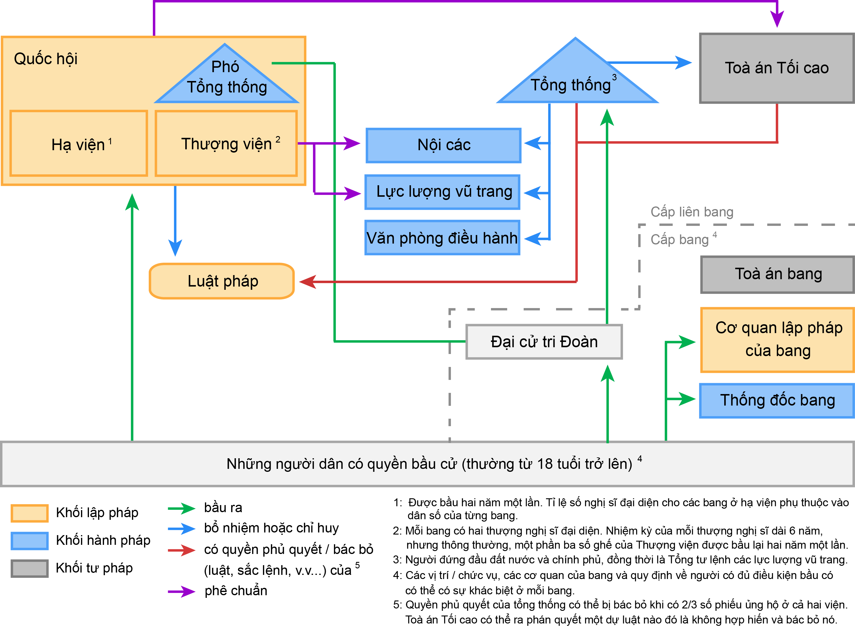 Political system of the United States